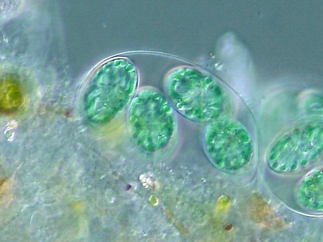 Glaucocystis sp. / from Kanazawa, Ishikawa Pref., Japan / Microscope:Leica DMRD (DIC)